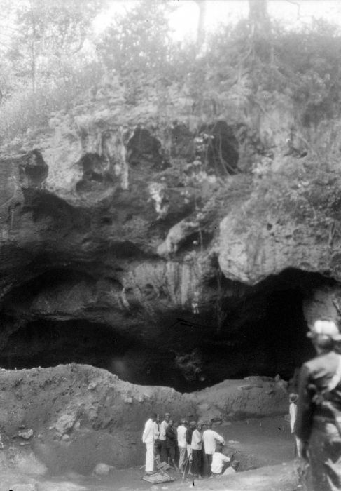 Archeological excavations at the cave of Sampung